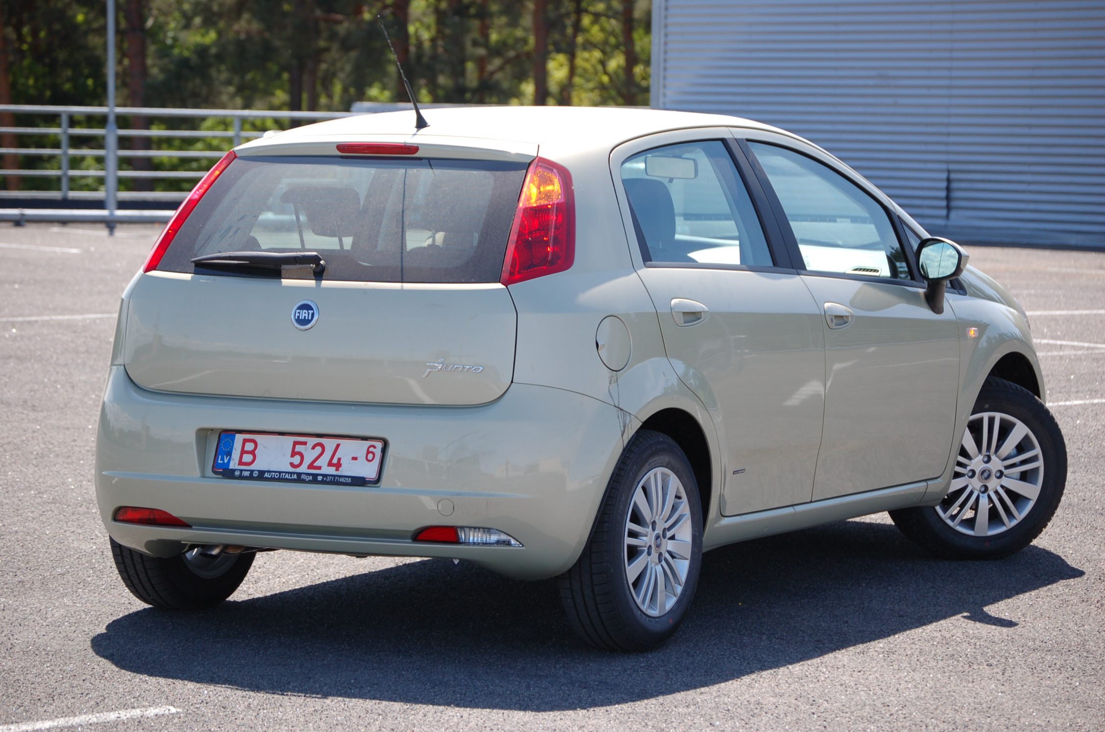 Fiat Grande Punto I